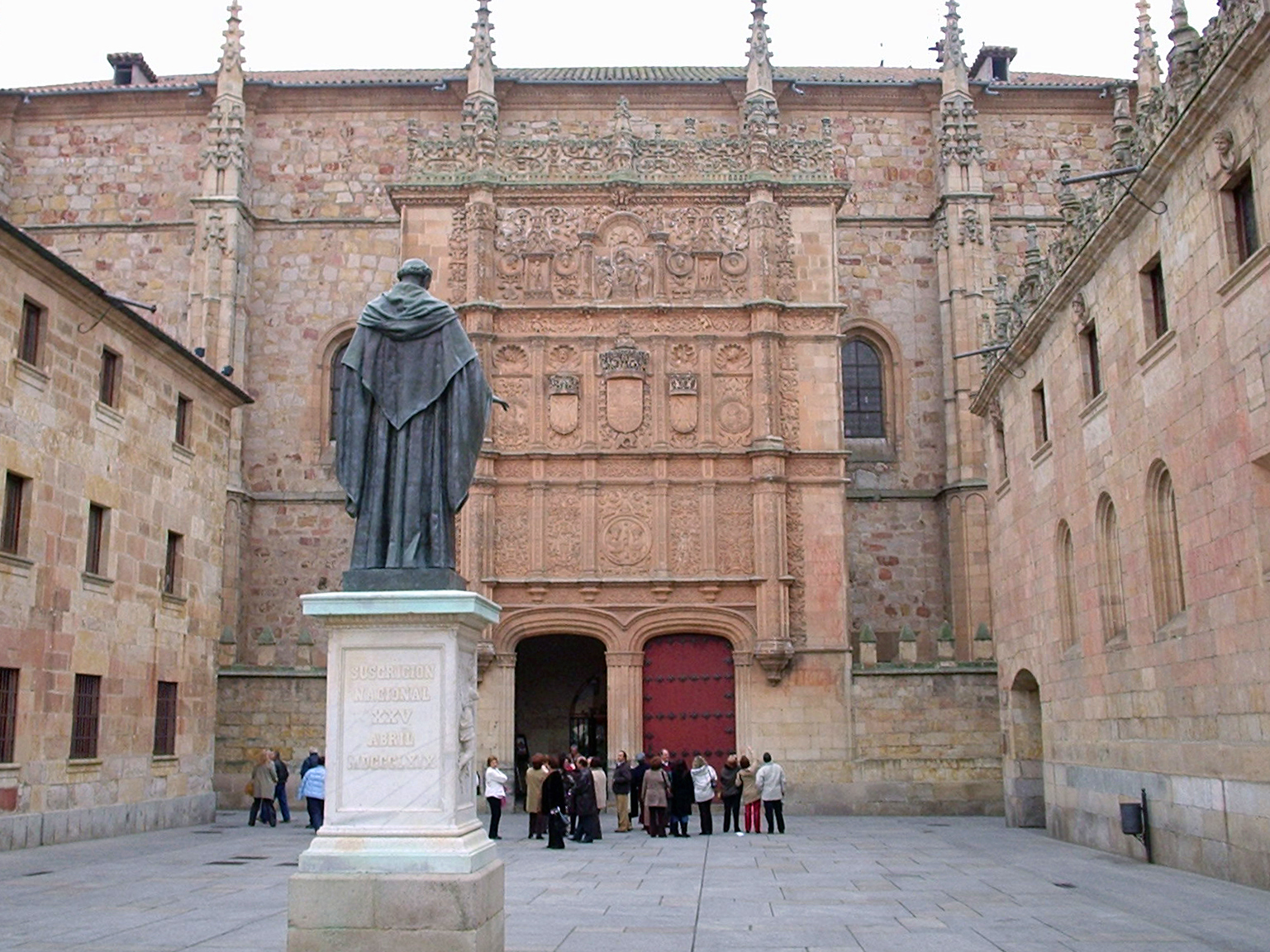 A statue of Fray Luis de León at the University of Salamanca, in Spain.